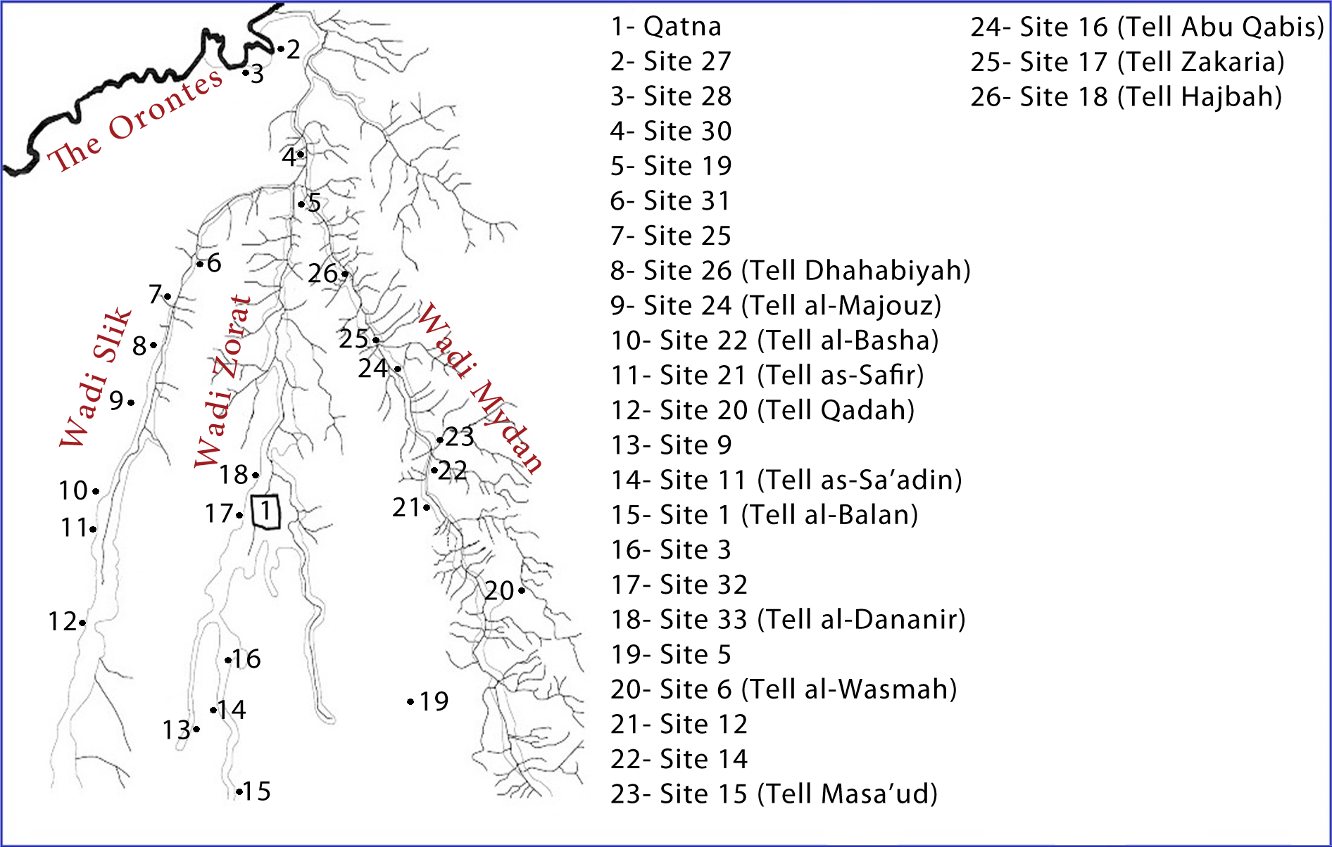 archaeological sites in Qatna.[1]